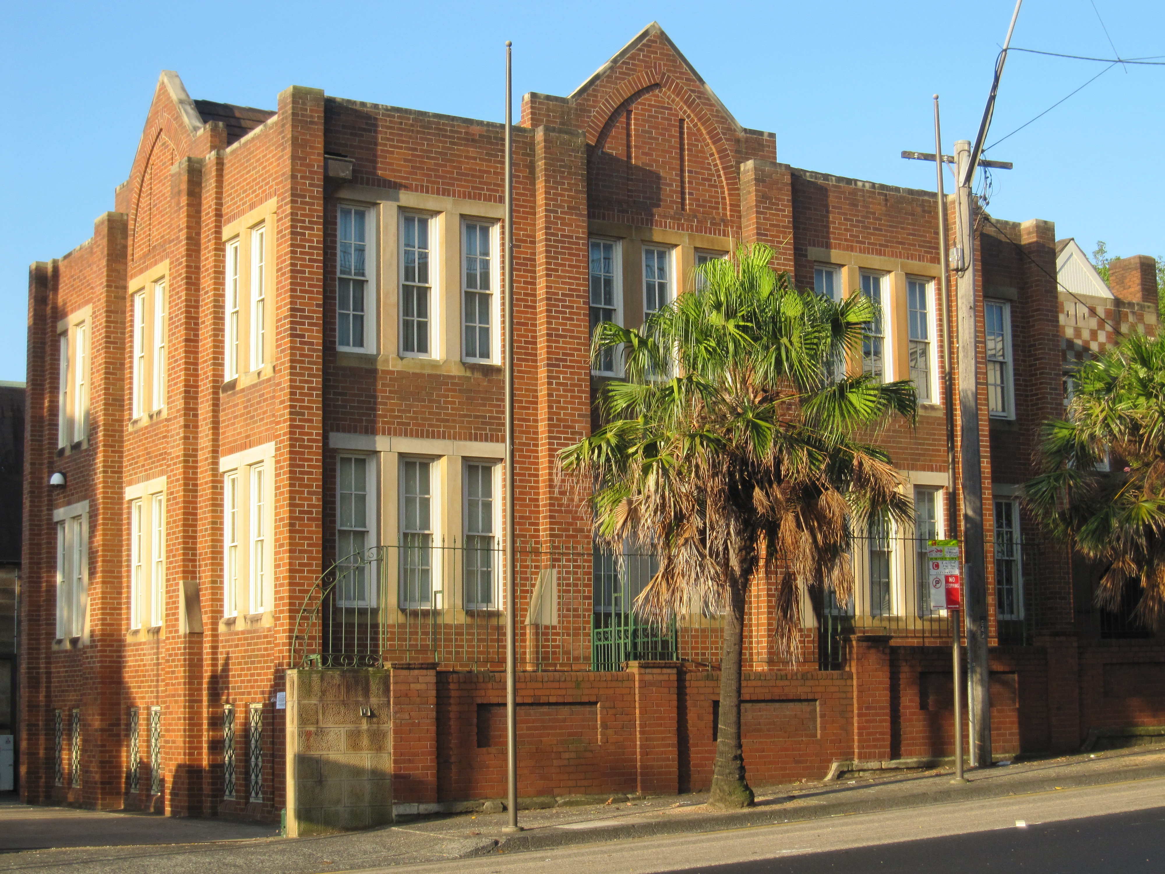 St Andrew's Greek Orthodox Theological College, Cleveland Street, Redfern, New South Wales, Australia